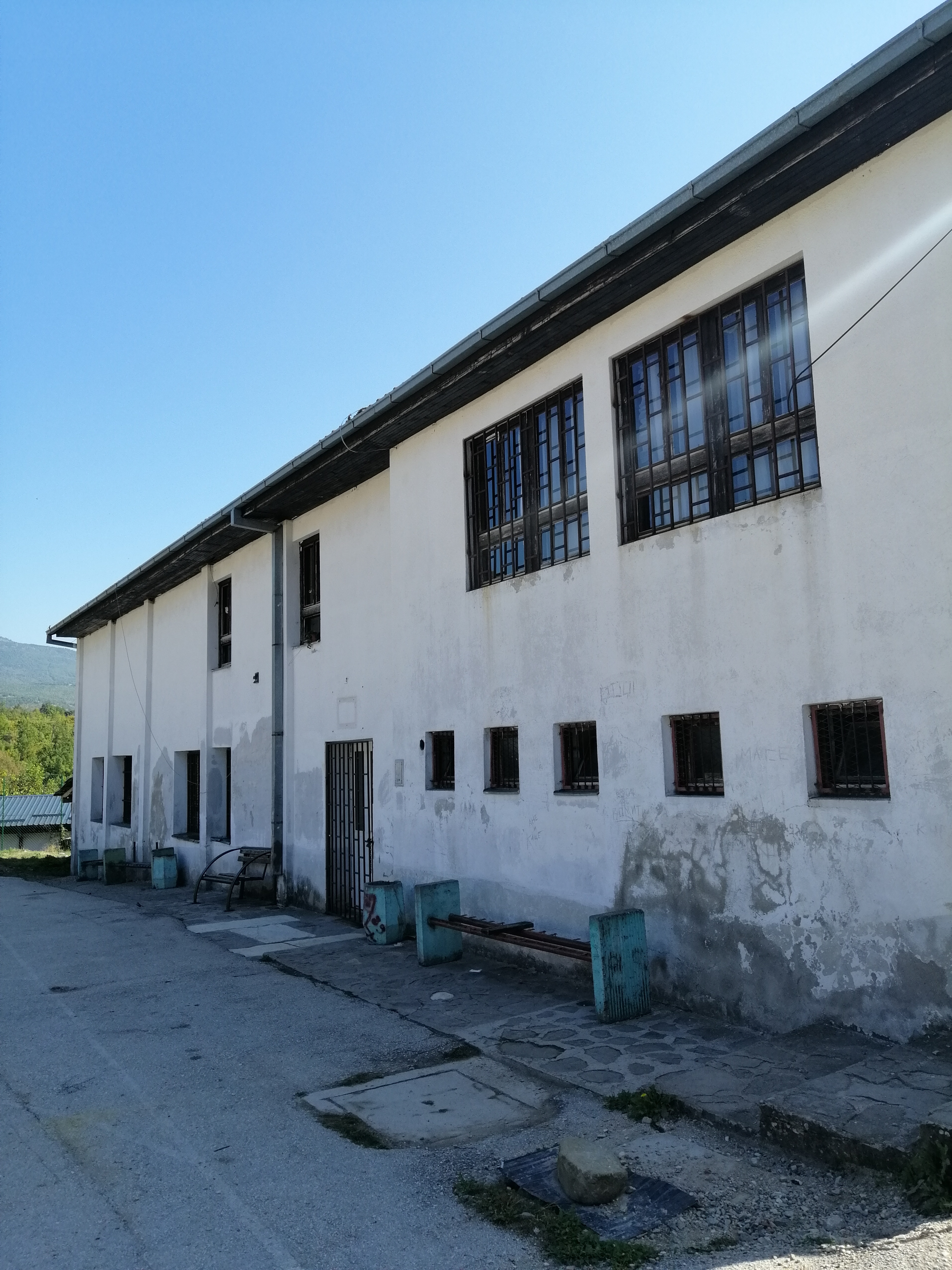 Primary school in the village Pobožje